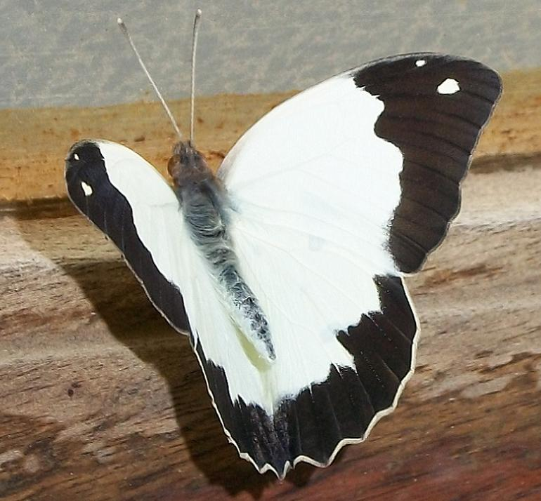 Eronia cleodora raised on on Capparis fascicularis var. zeyheri from Amanzimtoti, South Africa.